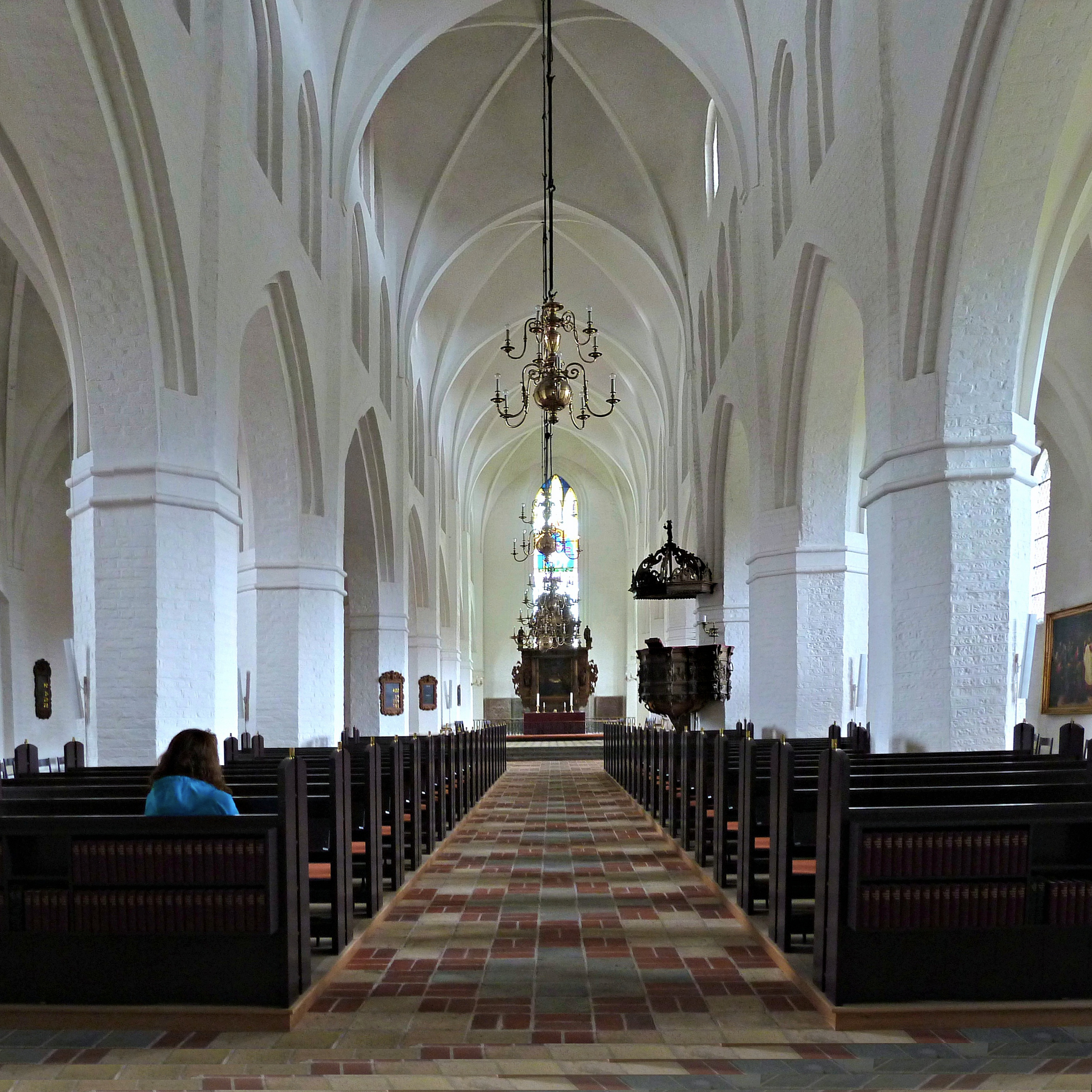 The central nave of Church of Our Lady in Assens, Denmark